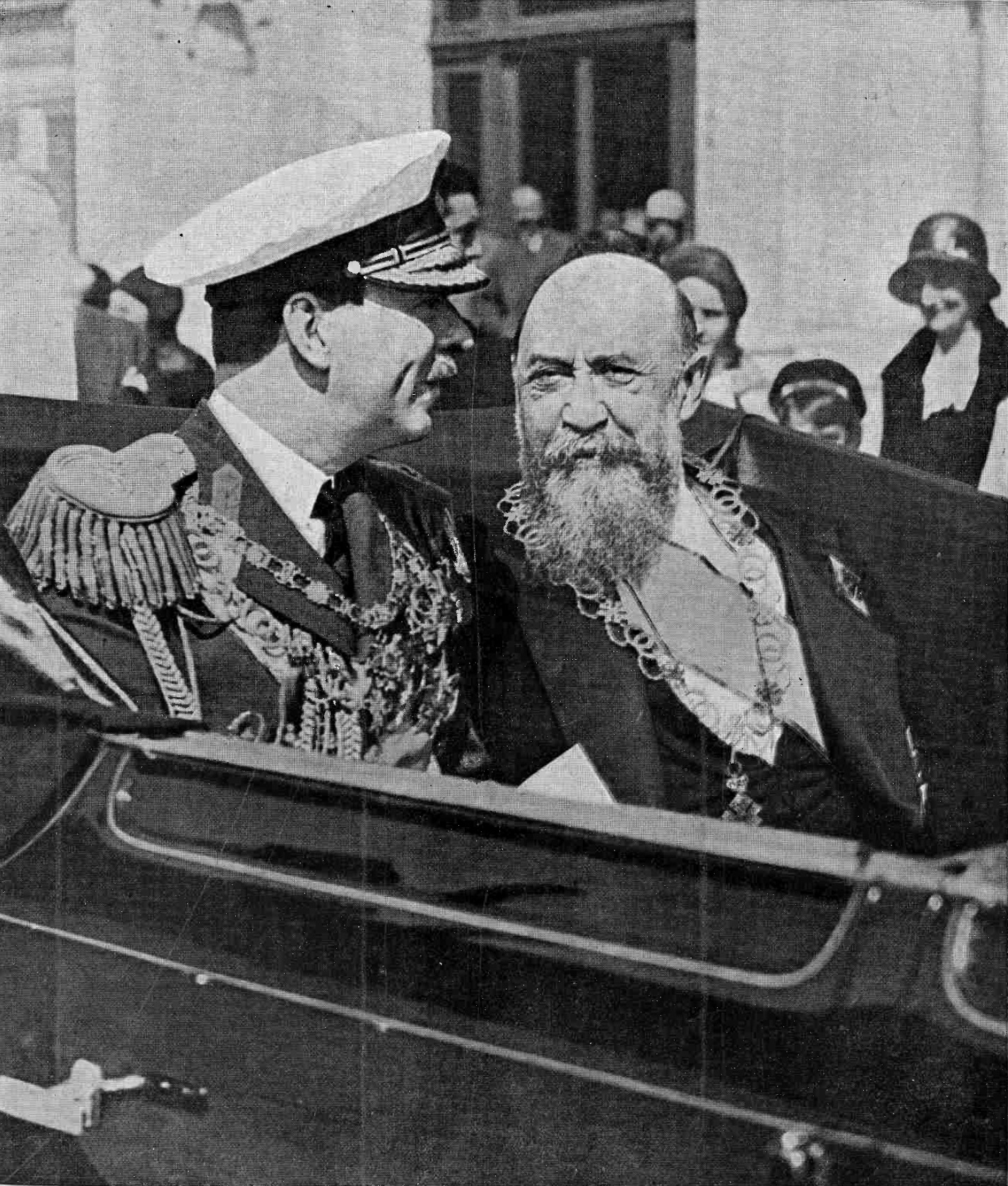 King Carol II and Prime Minister Nicole Iorga in Timișoara.